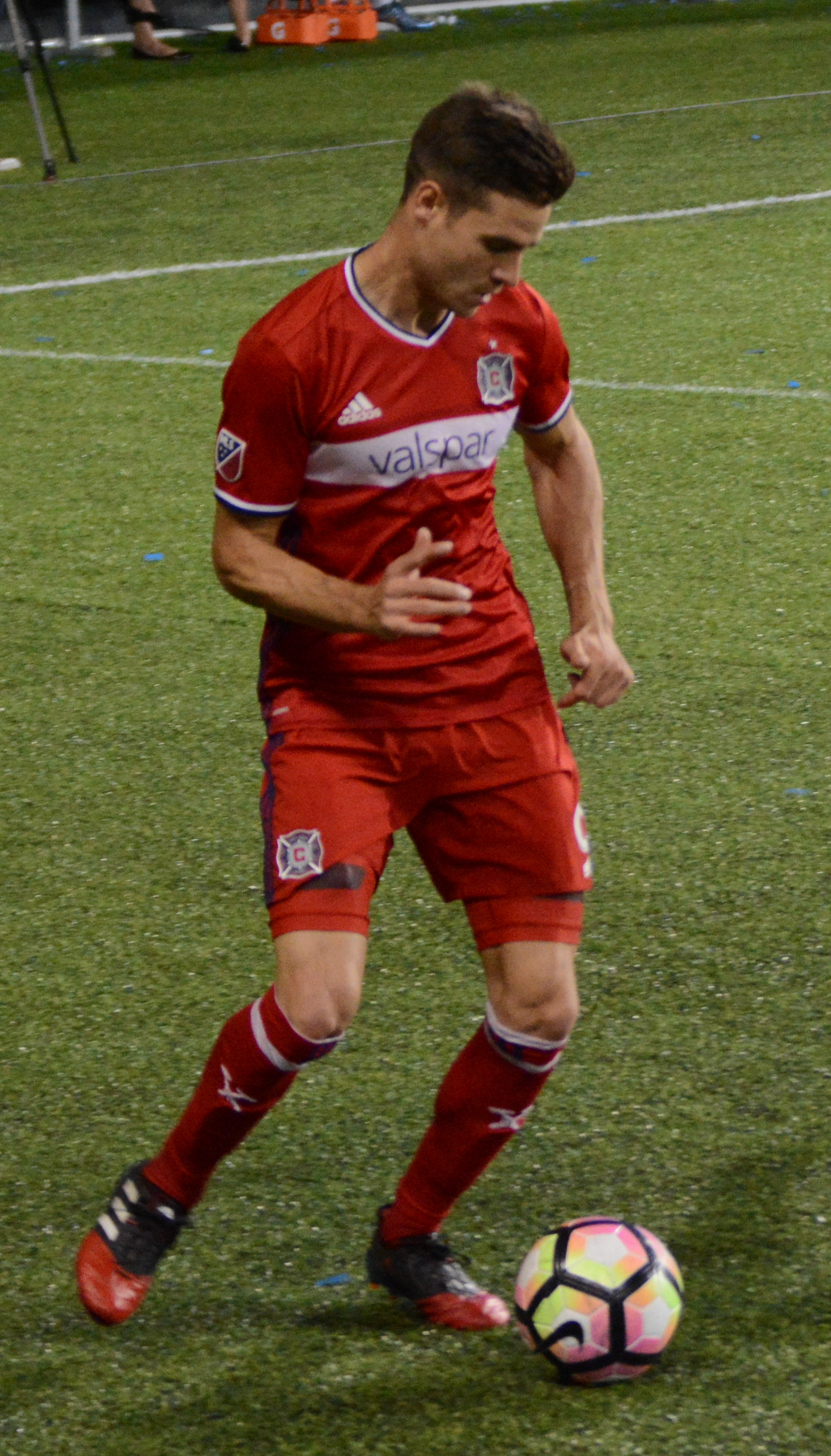 Taken at a U.S. Open Cup match between FC Cincinnati and Chicago Fire SC at Nippert Stadium in Cincinnati, Ohio on June 28, 2017.